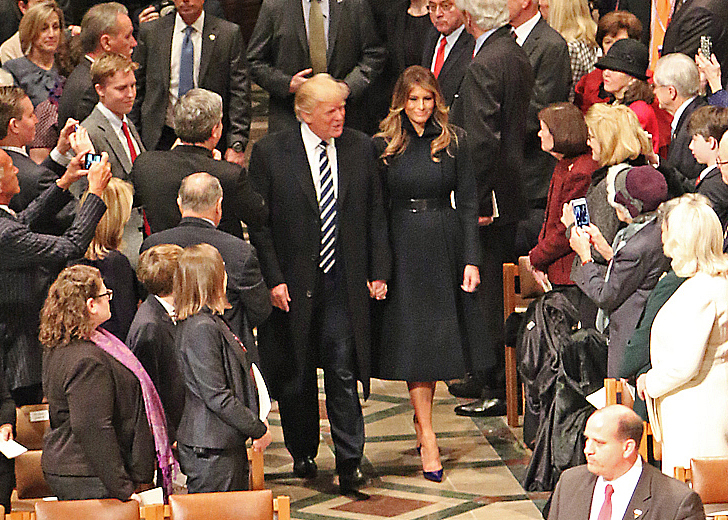 President Donald J. Trump and First Lady Melania Trump enter the Washington National Cathedral during the National Prayer Service, in Washington, D.C., Jan. 21, 2017. More than 5,000 military members from across all branches of the armed forces of the United States, including Reserve and National Guard components, provided ceremonial support and Defense Support of Civil Authorities during the inaugural period. (U.S. Army photo by U.S. Army Sgt. Paige Behringer)